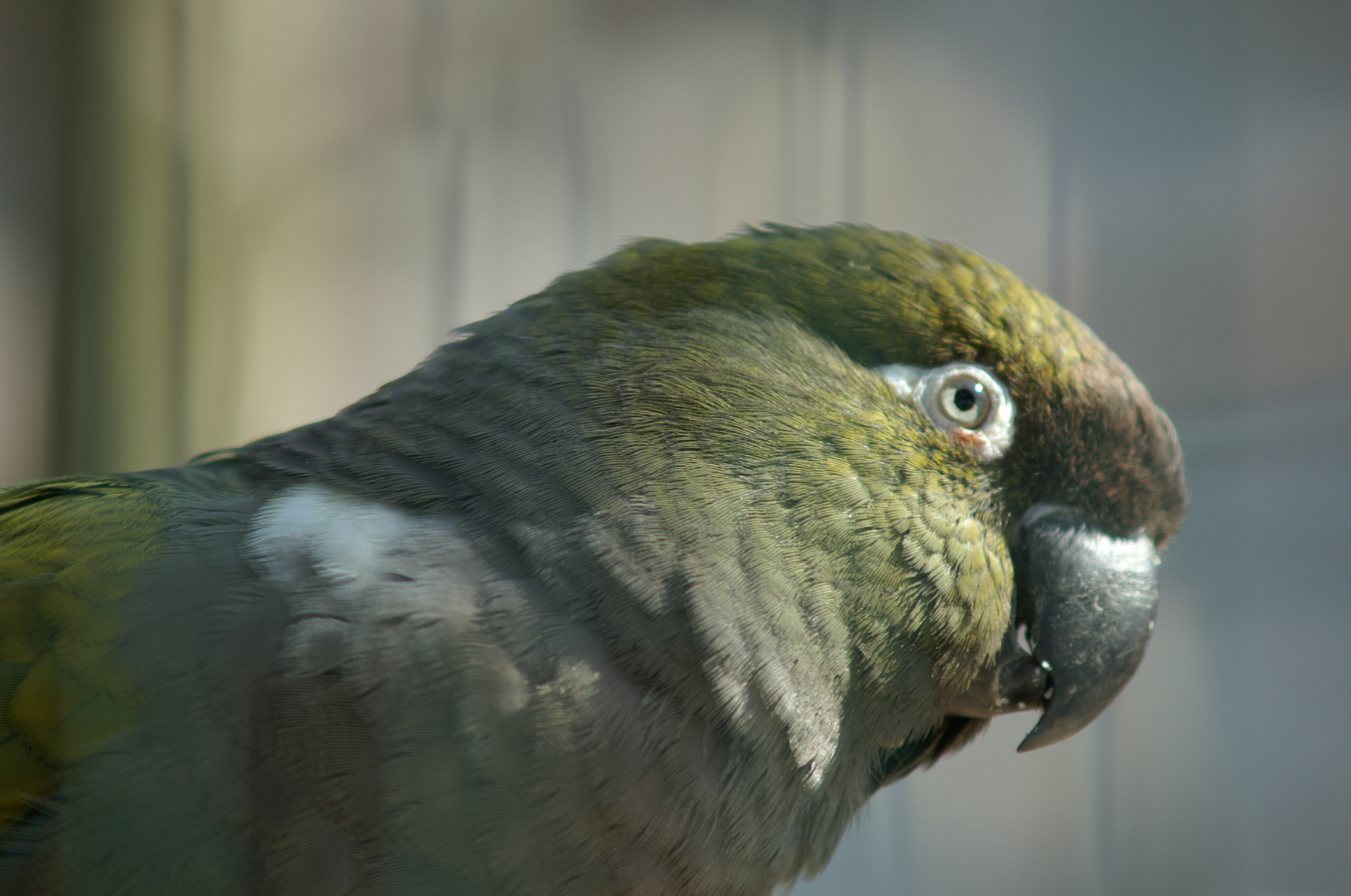 Burrowing Parakeet (also known as the Patagonian Conure) at Helsinki Zoo.